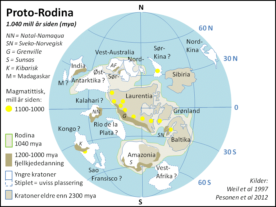 Paleogeographic globe in the Norwegian løanguage, made for Wikipedia use at PowerPoint software.